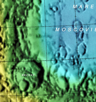 Color-coded LAC 48 from USGS Digital Atlas (grid spacing = 2 degrees).